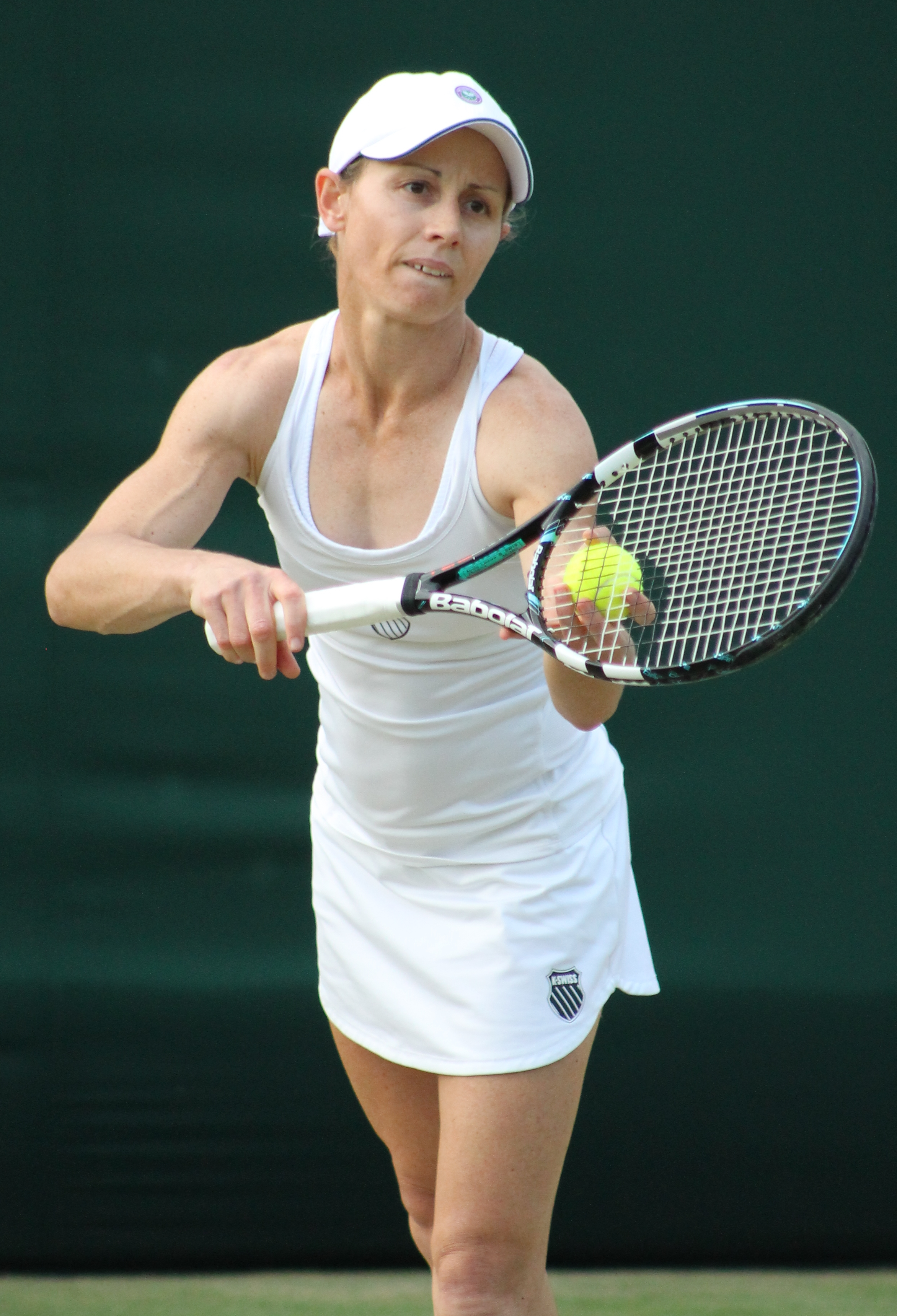 Black WM14 (9)